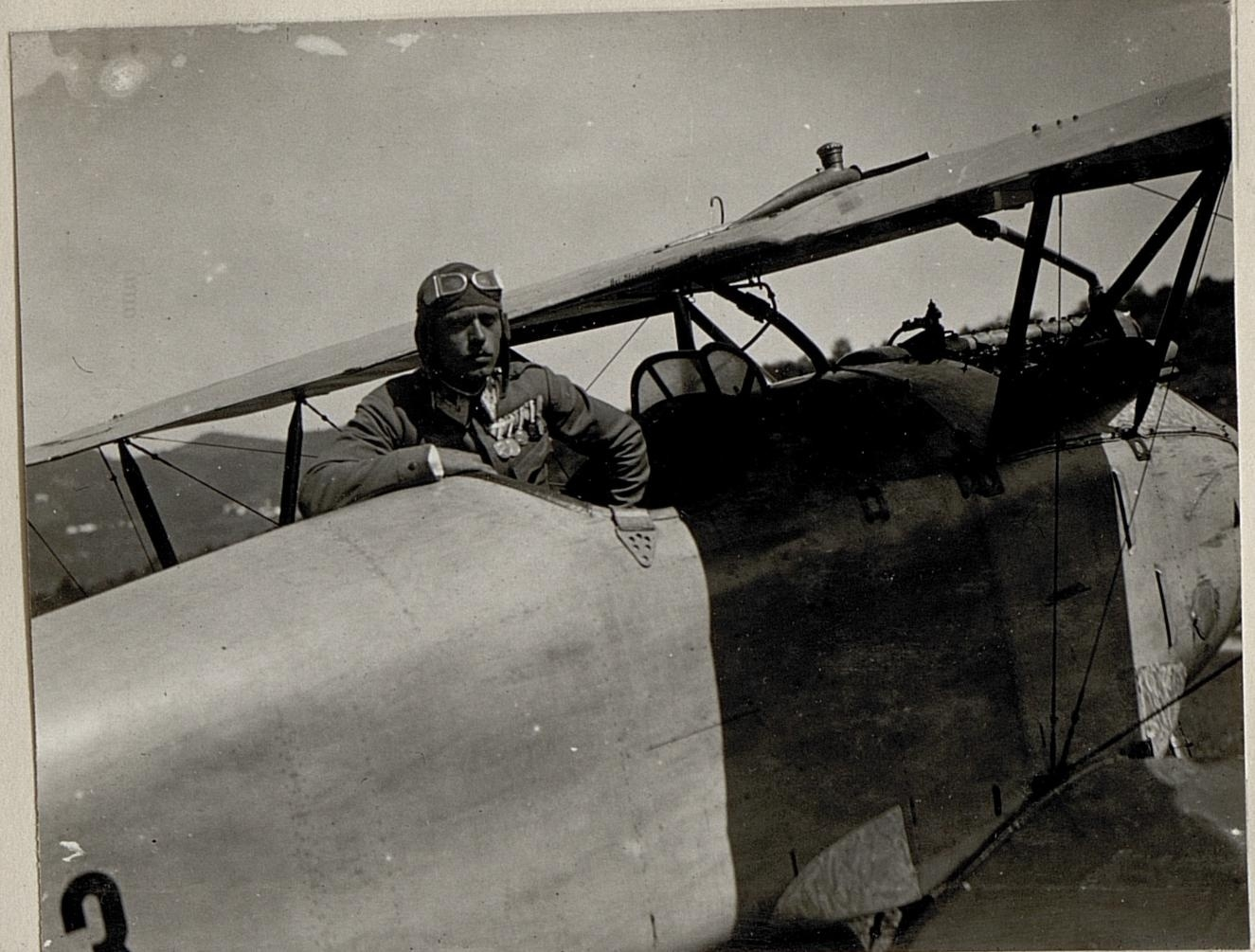 Jozsef Kiss aboard an Albatros D.III (Oef)